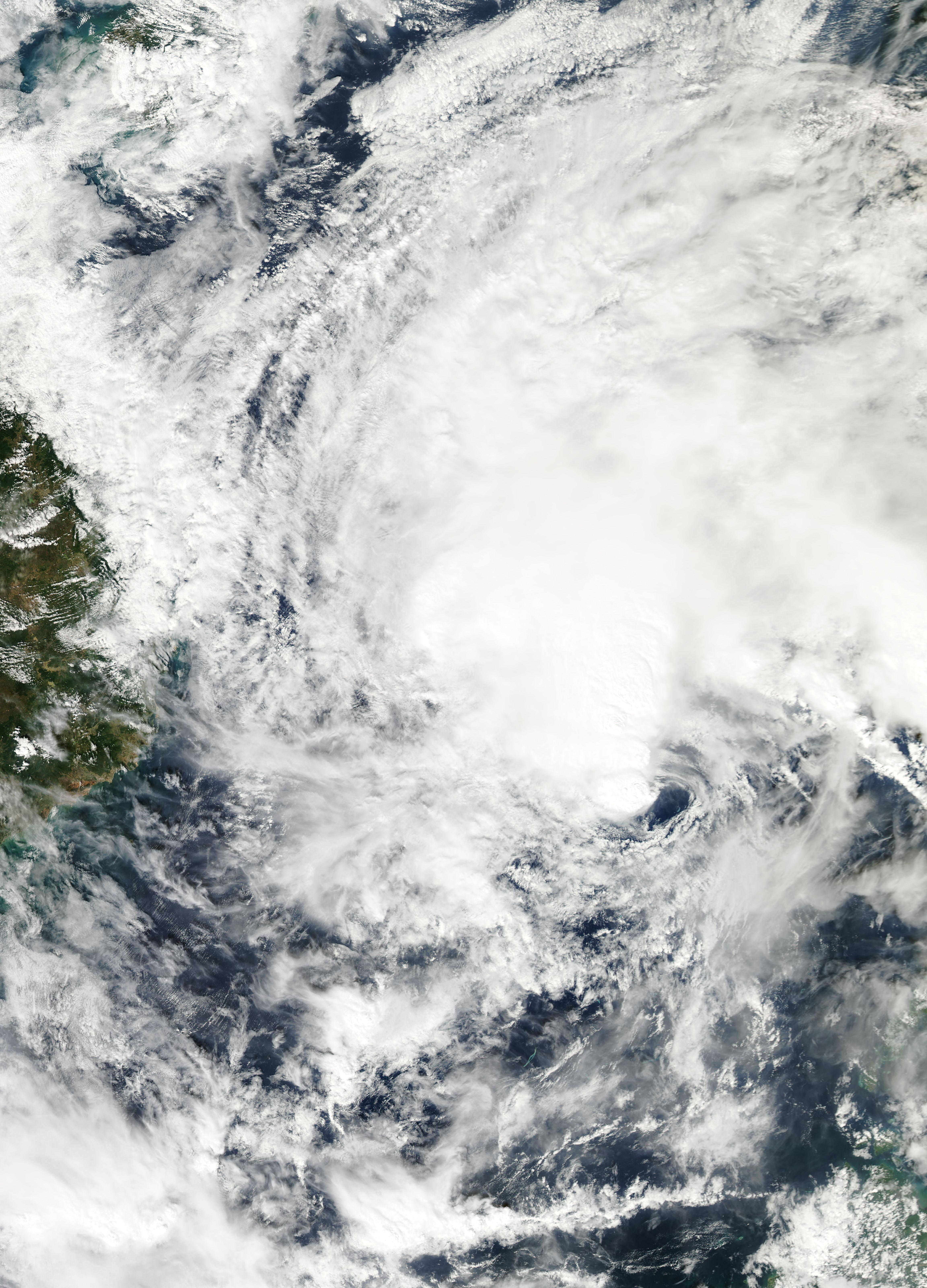 Tropical Storm Bolaven (01W) in the South China Sea on January 3, 2018